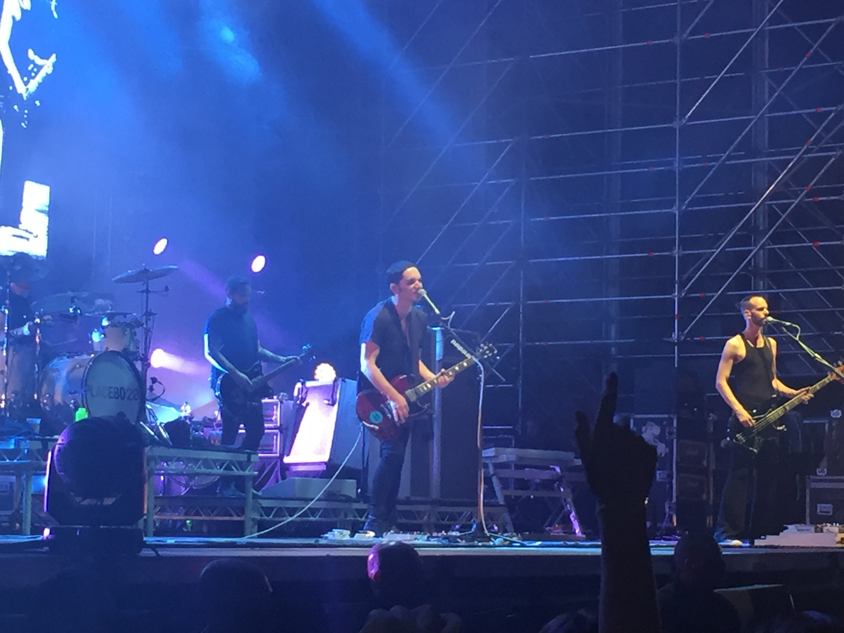 Placebo @Collisioni Festival - Barolo CN - Italy